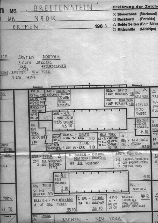 Part of a stowage plan from MS Breitenstein (NDL) 1966 tourn 61 west bound North America east coast (NAOK) - View in hatch no 3, steerage 1 and 2.